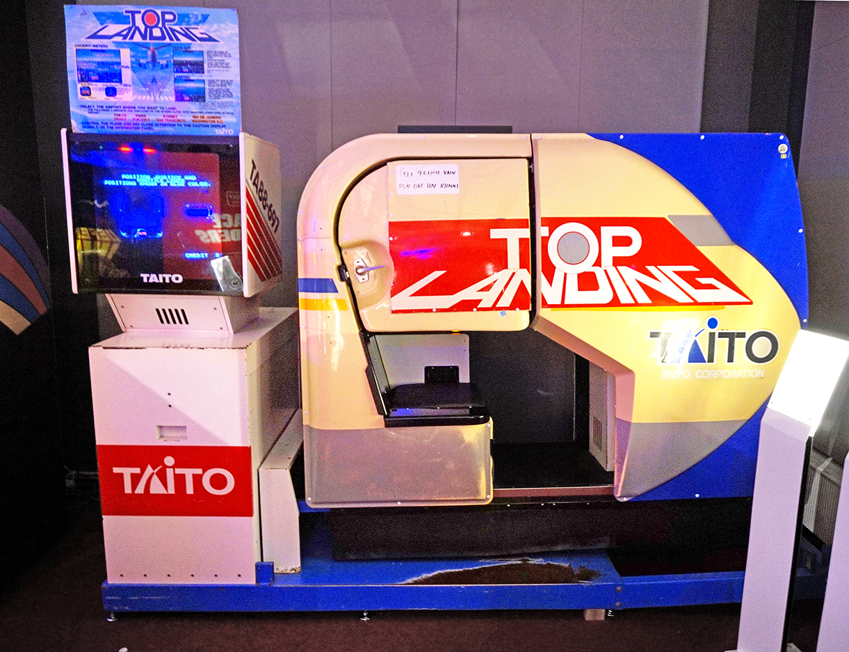 Taito Top Landing simulator. The Finnish Museum of Games, Tampere.